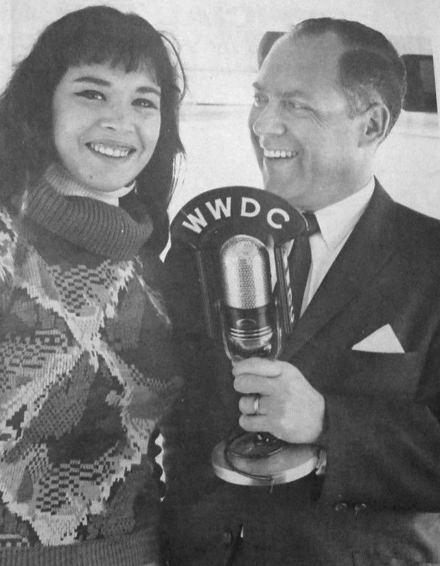 Photo of singer Gale Garnett and disc jockey Fred Fiske from WWDC AM. The station is now known as WWRC. This was a music survey published by the station with a list of Top 40 records and a photo of Garnett and Fiske in the back.